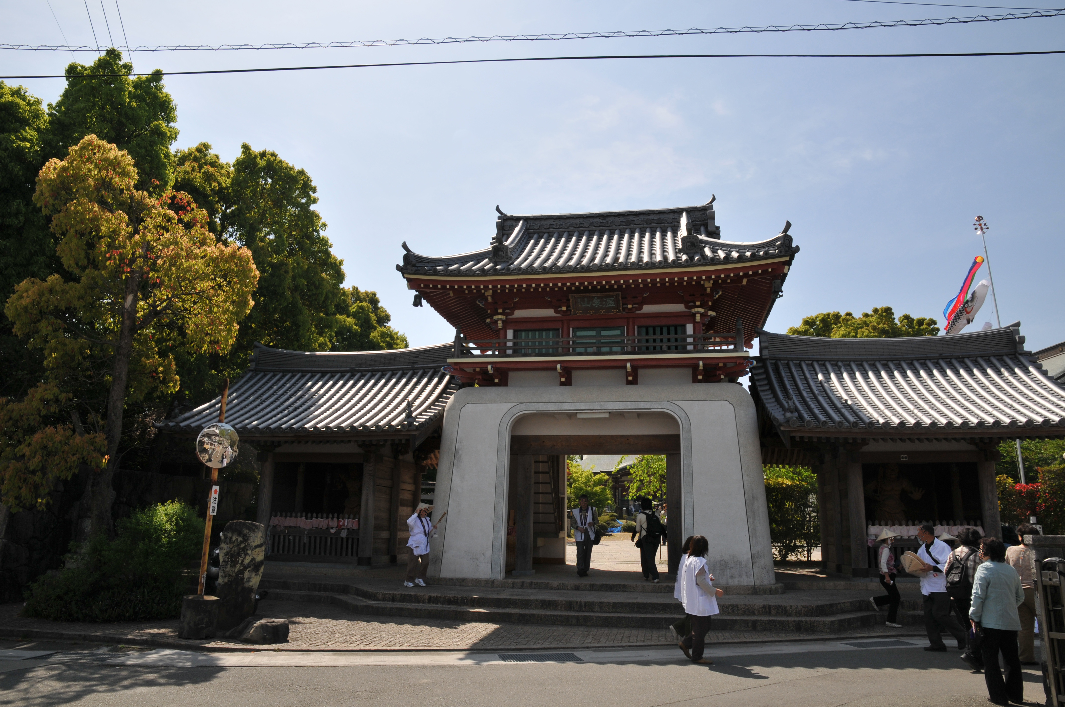 Temple gate, Anraku-ji